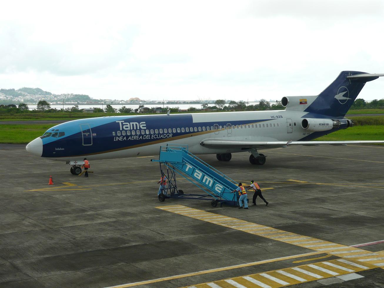 Boeing 727-200 of TAME registered HC-BZS at Carlos Concha Torres International Airport, Esmeraldas, Ecuador